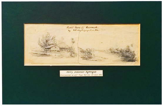 River Scene in Burmah by Sir. Lt-Col. Henry Dickinson Nightingale, 13th Baronet